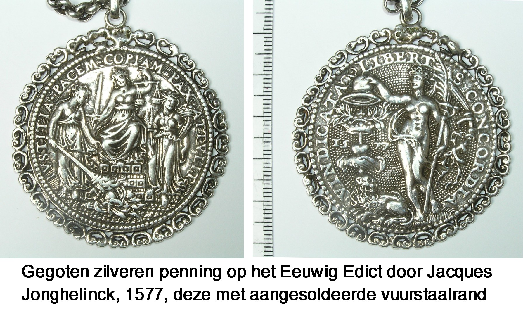 Silver penning coin on the eternal edict by Jacques Jonghelinck, 1577.